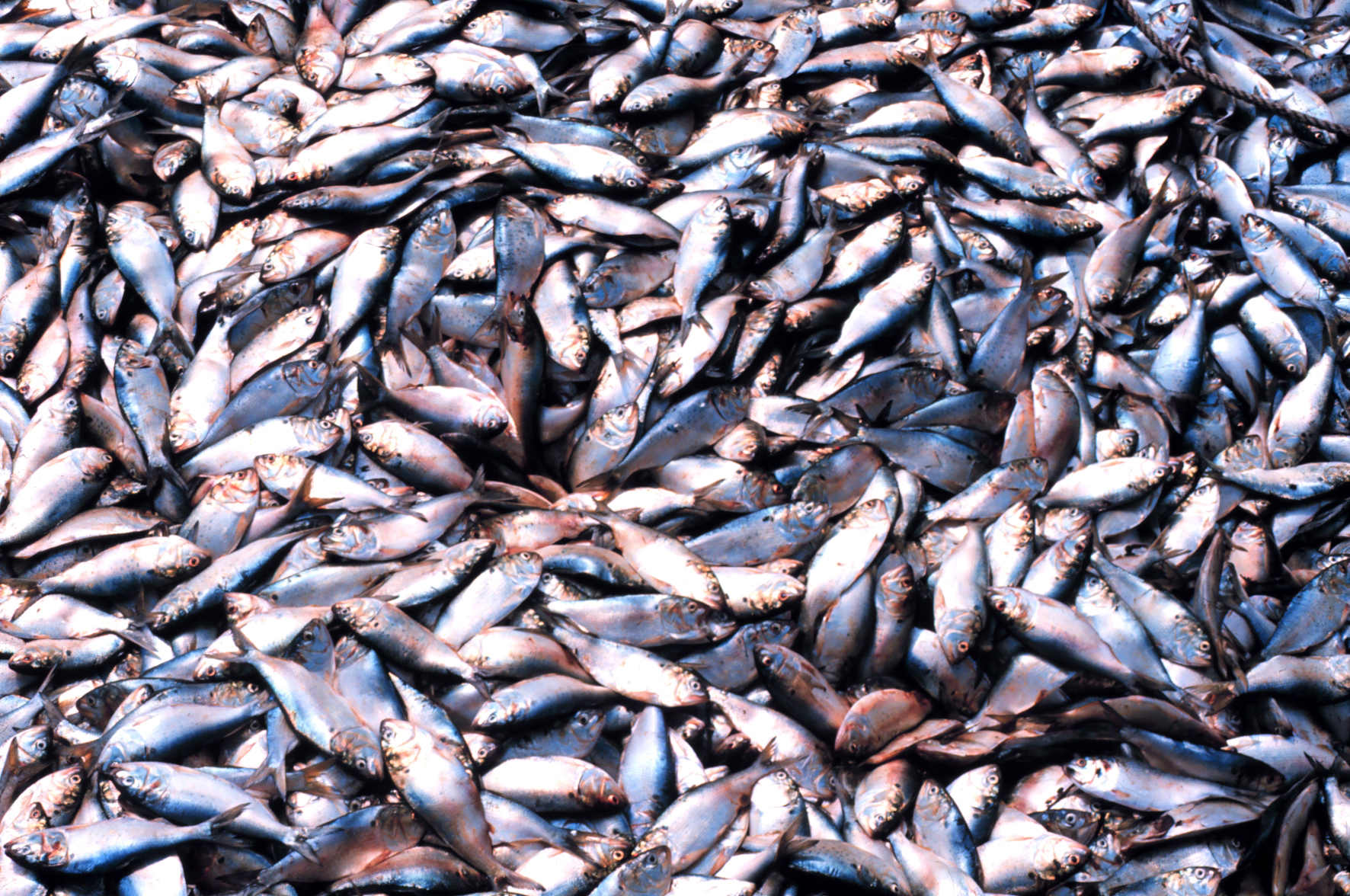 Menhaden fishing - menhaden in the hold of the mother vessel. These fish are used for fertilizer and pet food.